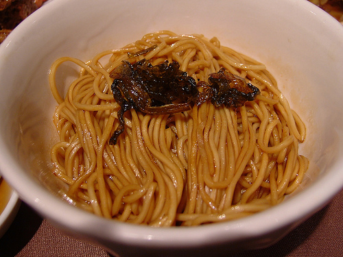 Oil noodle Chinese noodle cooked noodleOil noodle shanghai